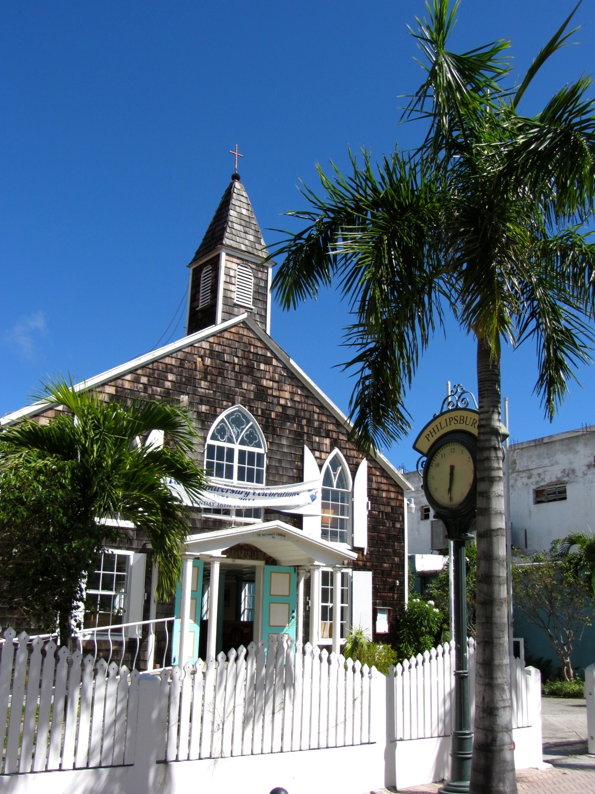 Philipsburg Methodist Church with Clock